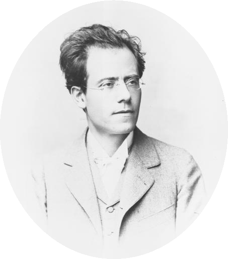 Gustav Mahler (1860–1911), bohemian-austrian composer and conductor, taken at his cabin; this was published as the cover of: Richard Specht, Gustav Mahler (1913), Berlin and Leipzig: Schuster and Loeffler.